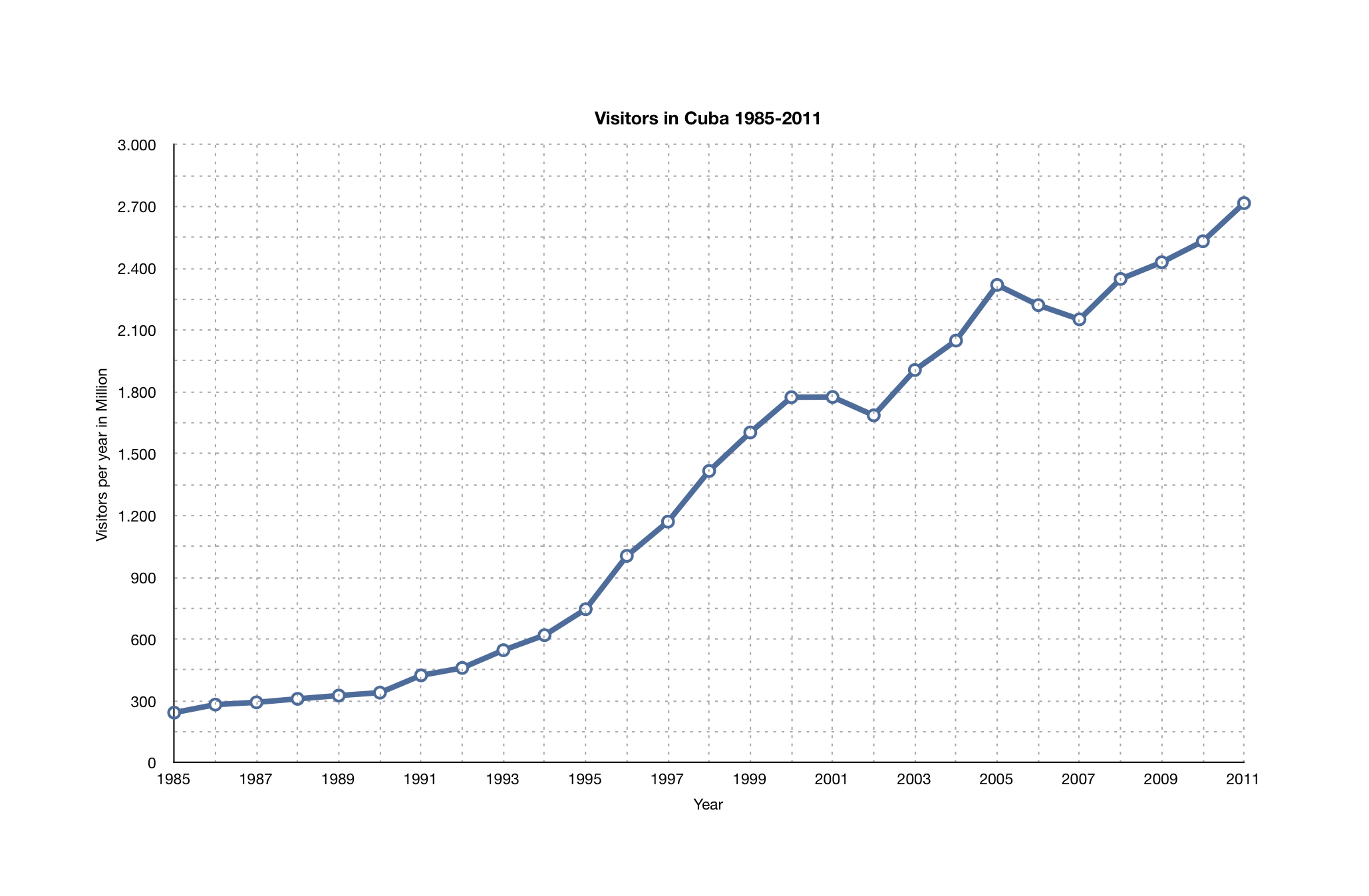 Visitors in Cuba per year (1985-2011), according to Cuban statistics and a 2012 publication from ONE.